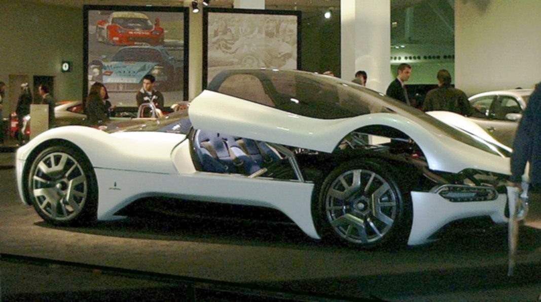 The Maserati Birdcage 75th concept car at the 2006 Greater Los Angeles Auto Show. (Photo taken by Covinan). The new version is colour corrected so that it is brighter than the original.